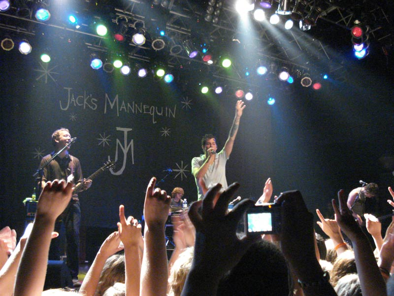 Jack's Mannequin performing in Cleveland, Ohio, 7/11/2006.